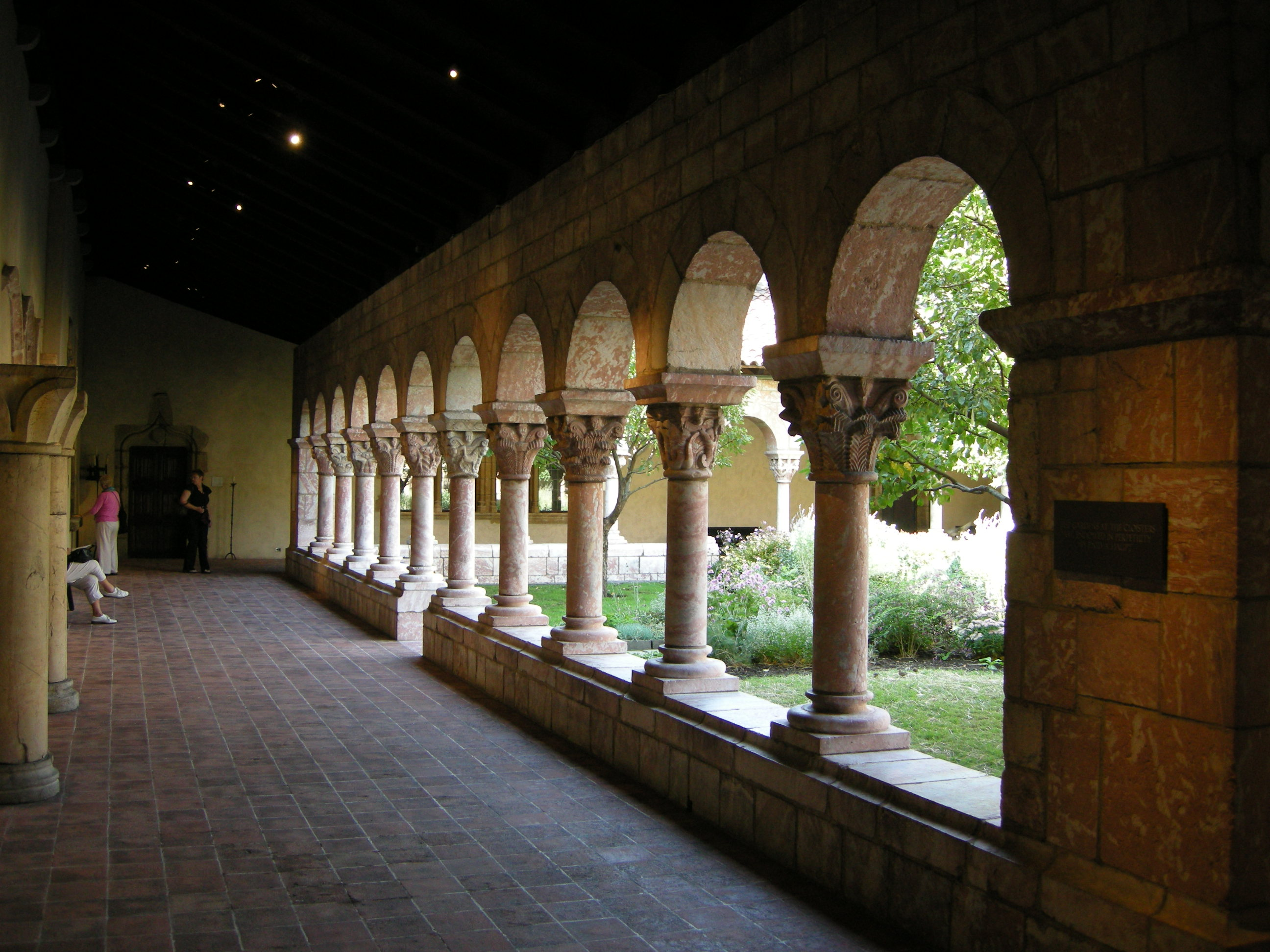 The cloisters, cuxa cloister